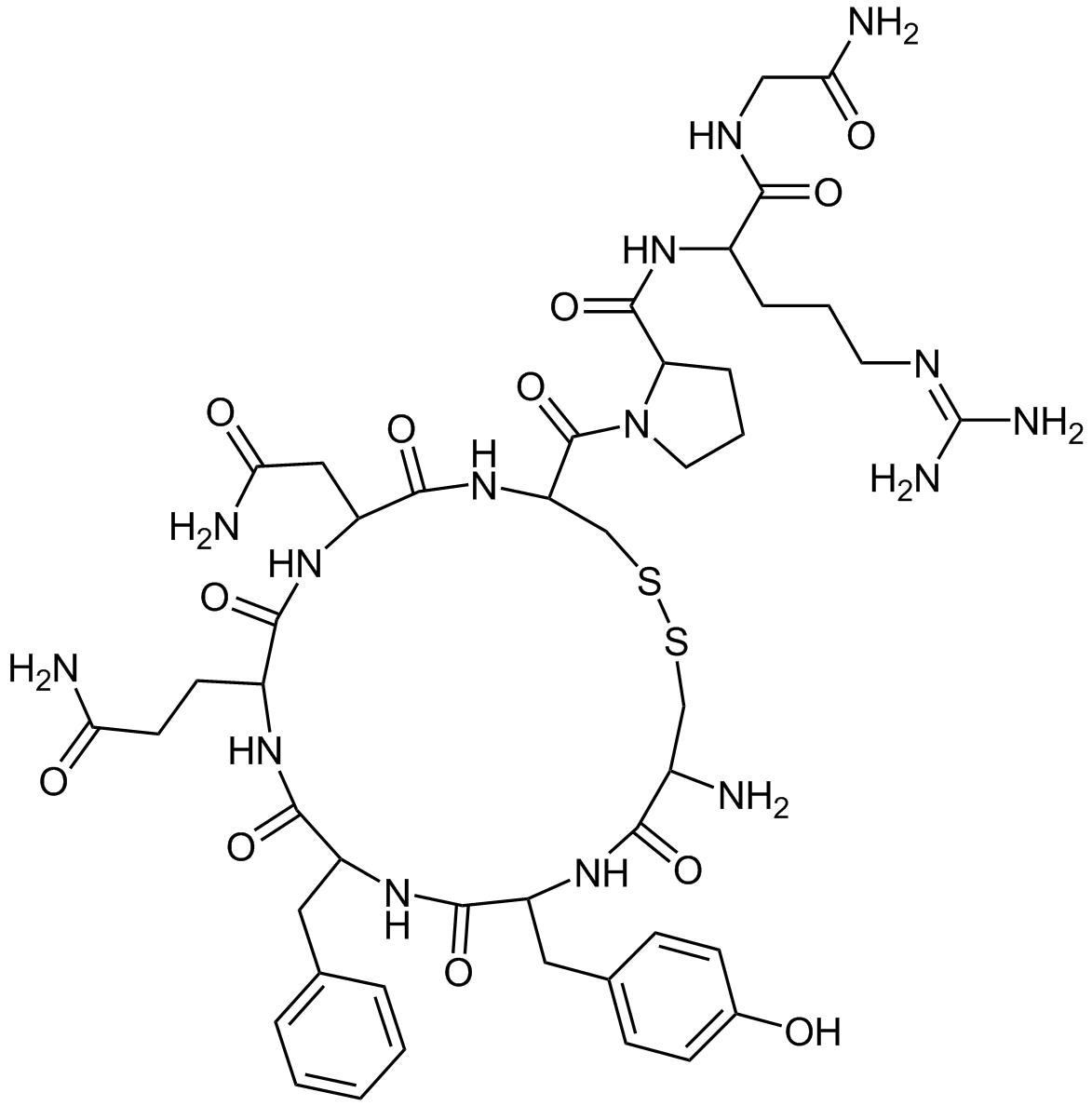 Chemical formula of Vasopressin